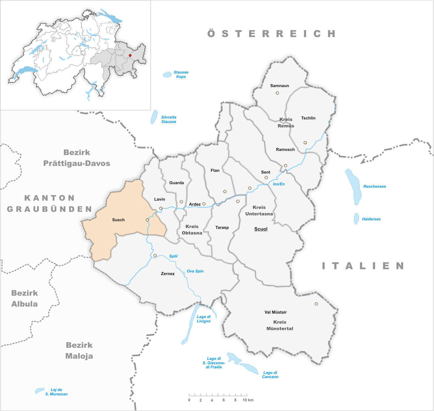 Municipality Susch